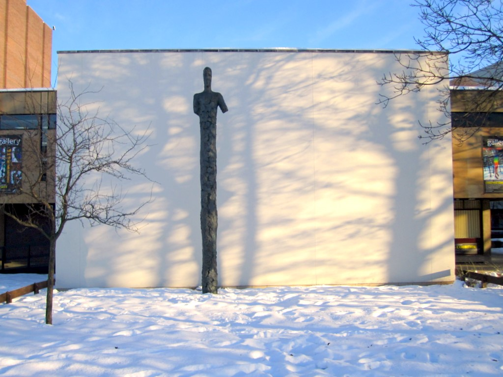 'Pillar Man' by Nico Widerberg, University of Northumbria, Sandyford Road